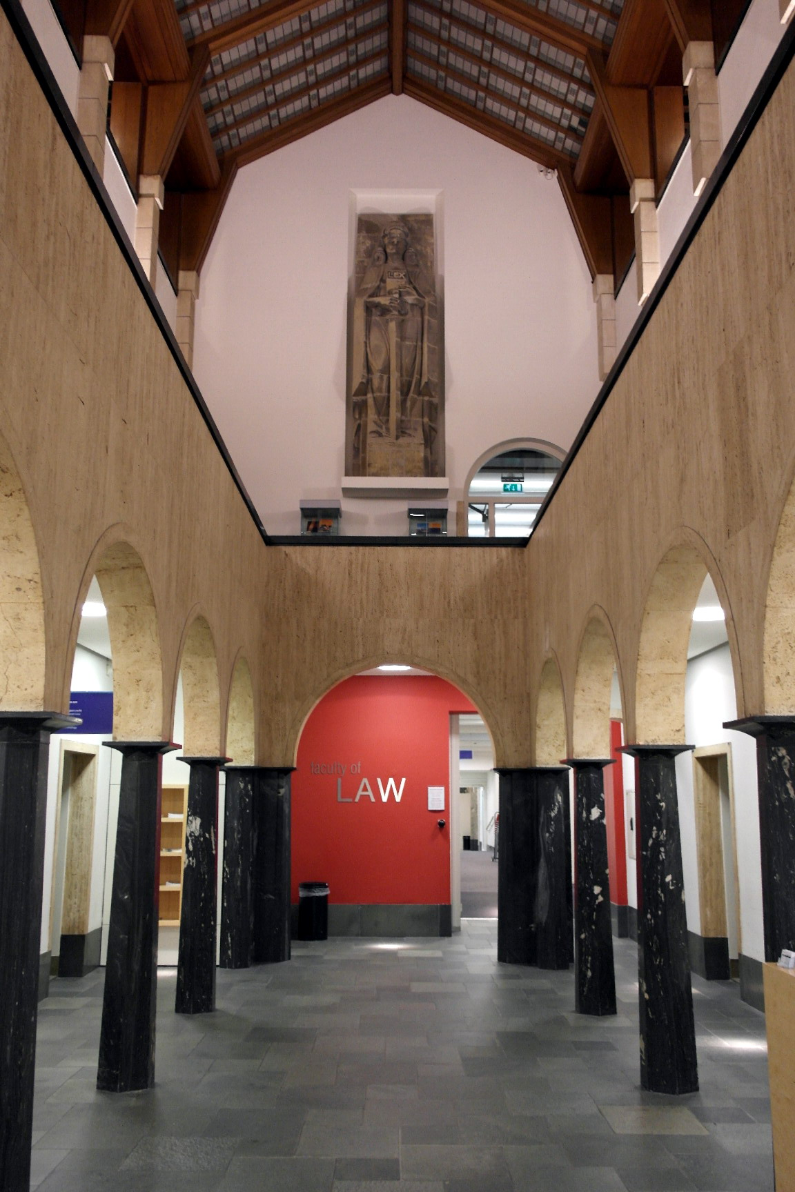 Maastricht, the Netherlands. Interior of former provincial government administration building (Oud Gouvernement), now housing the University of Maastricht's Faculty of Law. View of main entrance hall on the Bouillonstraat side.